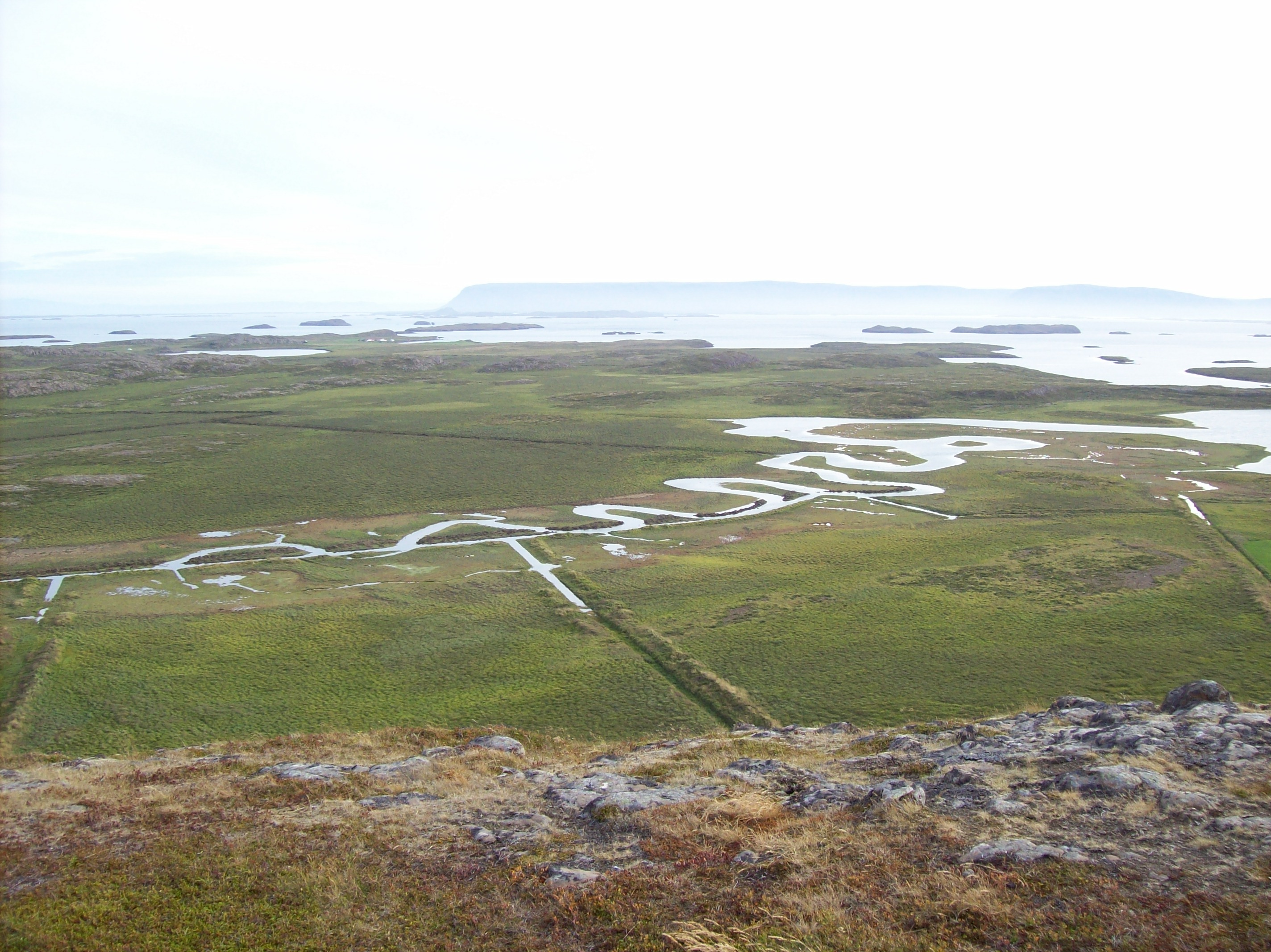 Meandering river (artificially rectified) in Iceland